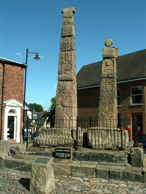 Photograph